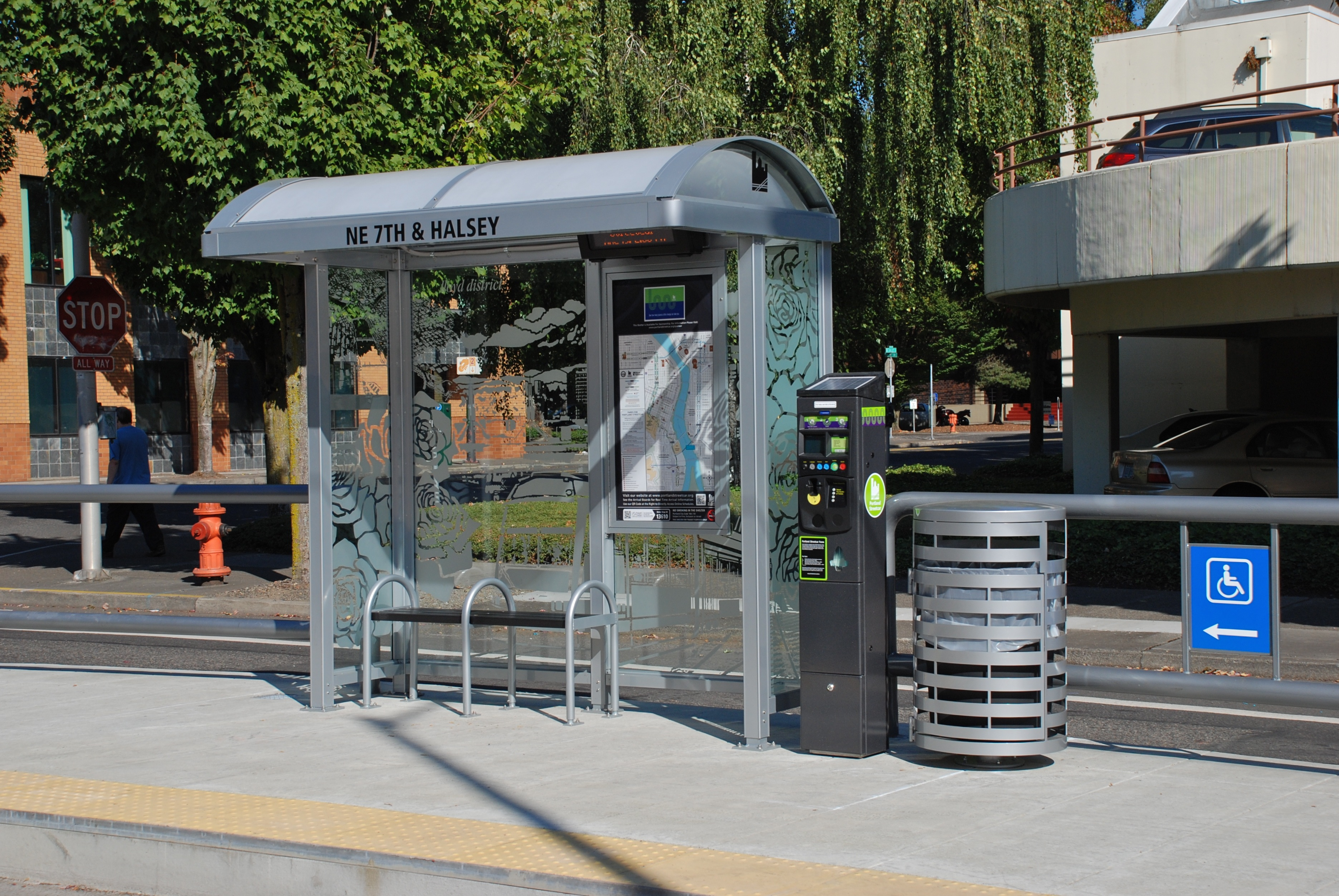 The 7th & Halsey stop of the Portland Streetcar system's CL Line, showing amenities typical of all stops on the system: Small shelter with bench (and information display and electronic reader board), ticket vending machine, and trash can. The 2001-opened modern-streetcar system originally had ticket machines only on-board the streetcars. The machines were added at stops in 2012, just before the opening of the second line, the CL Line.